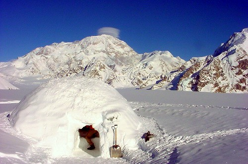 This is an igloo build on a slope like platform to make building igloos easier and faster